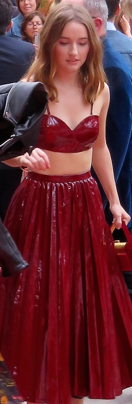 Kaitlyn Dever at the premiere of Front Runner, 2018 Toronto Film Festival